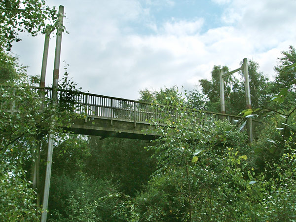 Festival Park, site of the 1986 National Garden Festival. 45-metre long suspension bridge of hardwood, spanning the Rocky Valley and joining the paths along the Woodland Ridge, 2005.